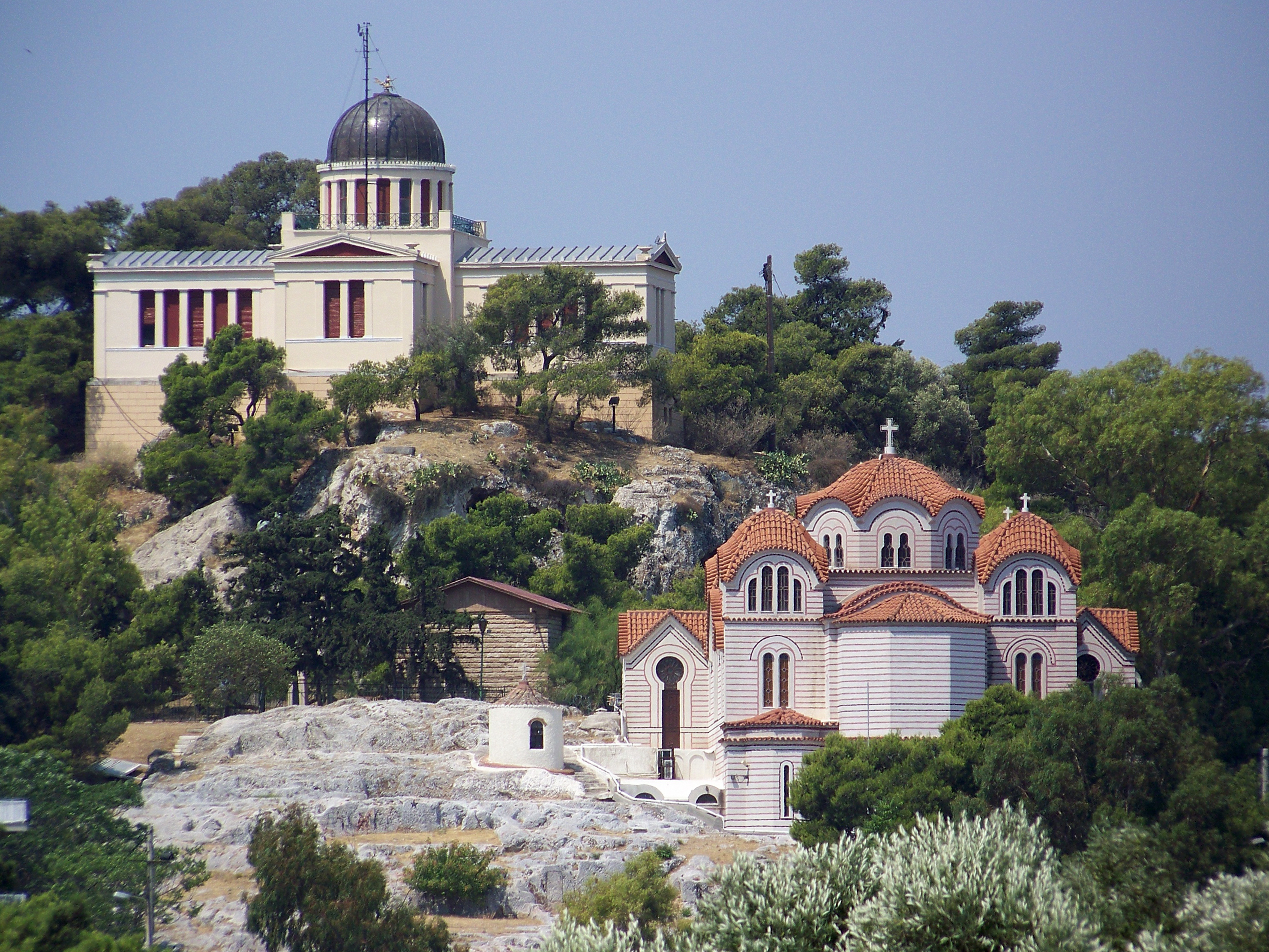 Observatory and Agia Marina church in Athens, Greece.